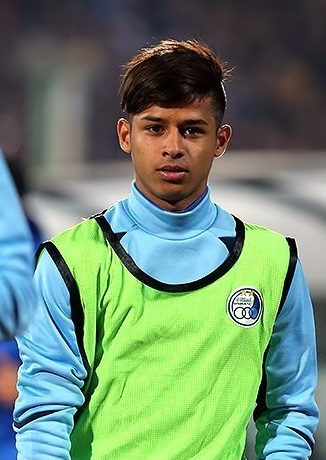 Mehdi Ghaedi